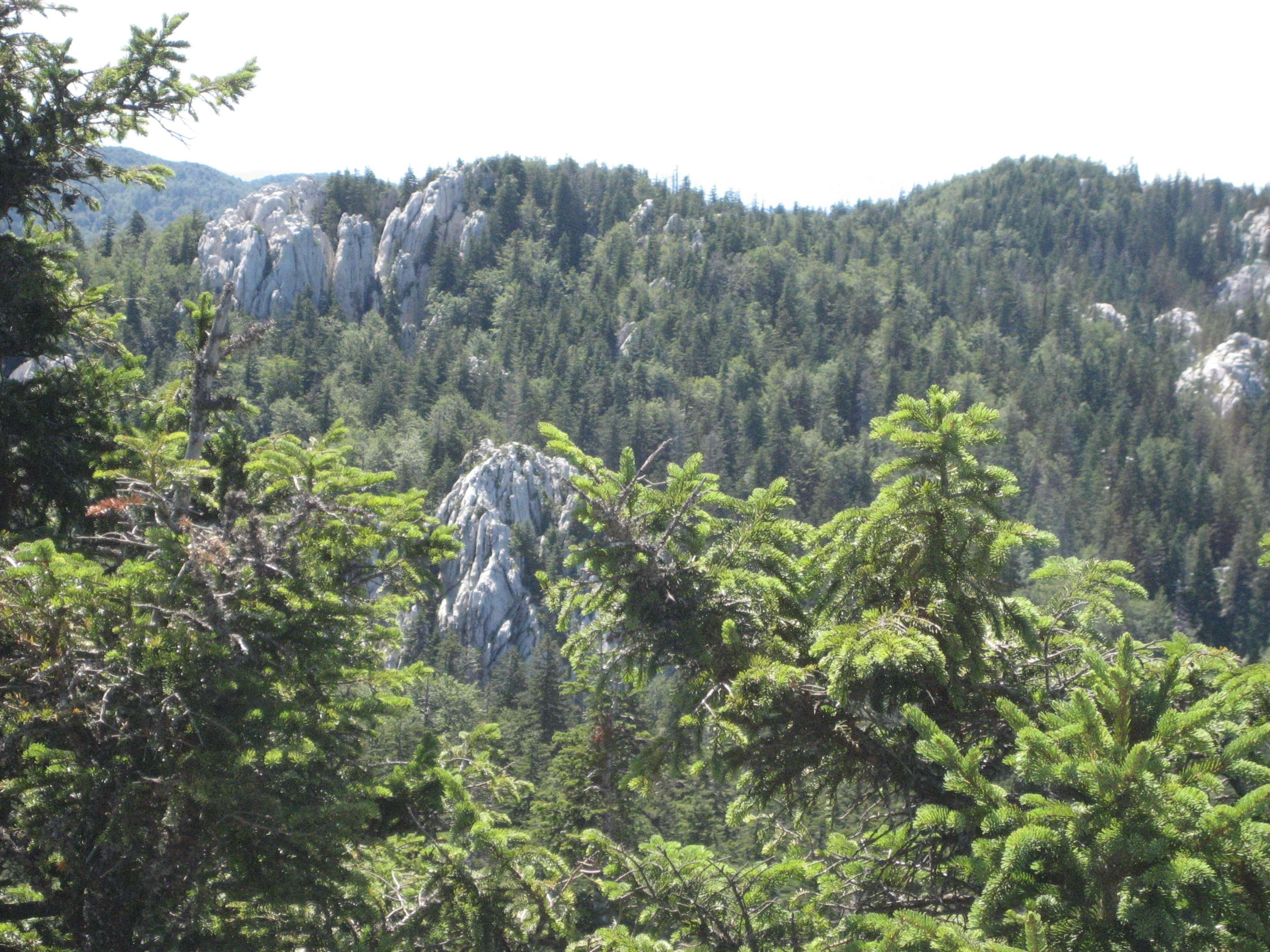 Samarske stijene